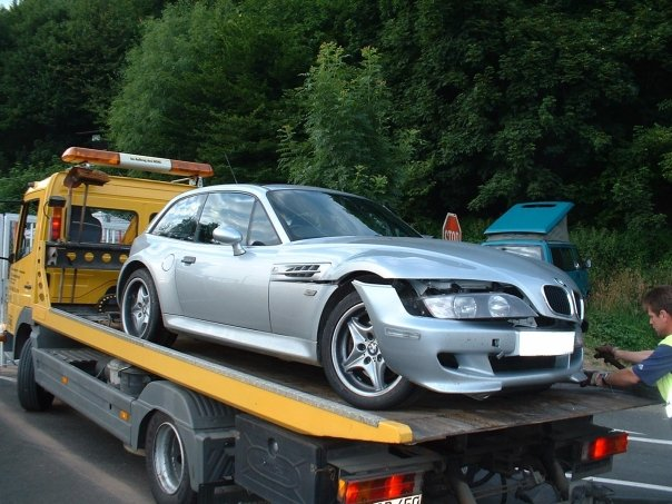 BMW M Coupé having crashed at Breidscheid Bridge on the Nordschleife. Here seen being recovered on a 'Bongard' truck.